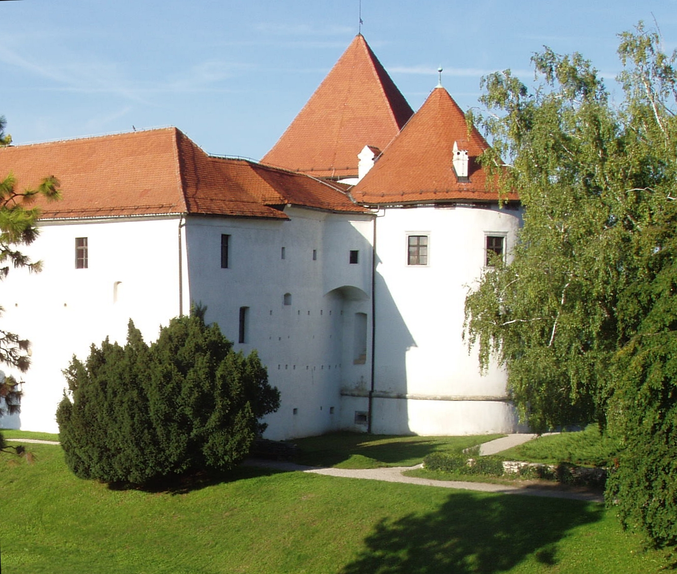 Varaždin - The Old Town